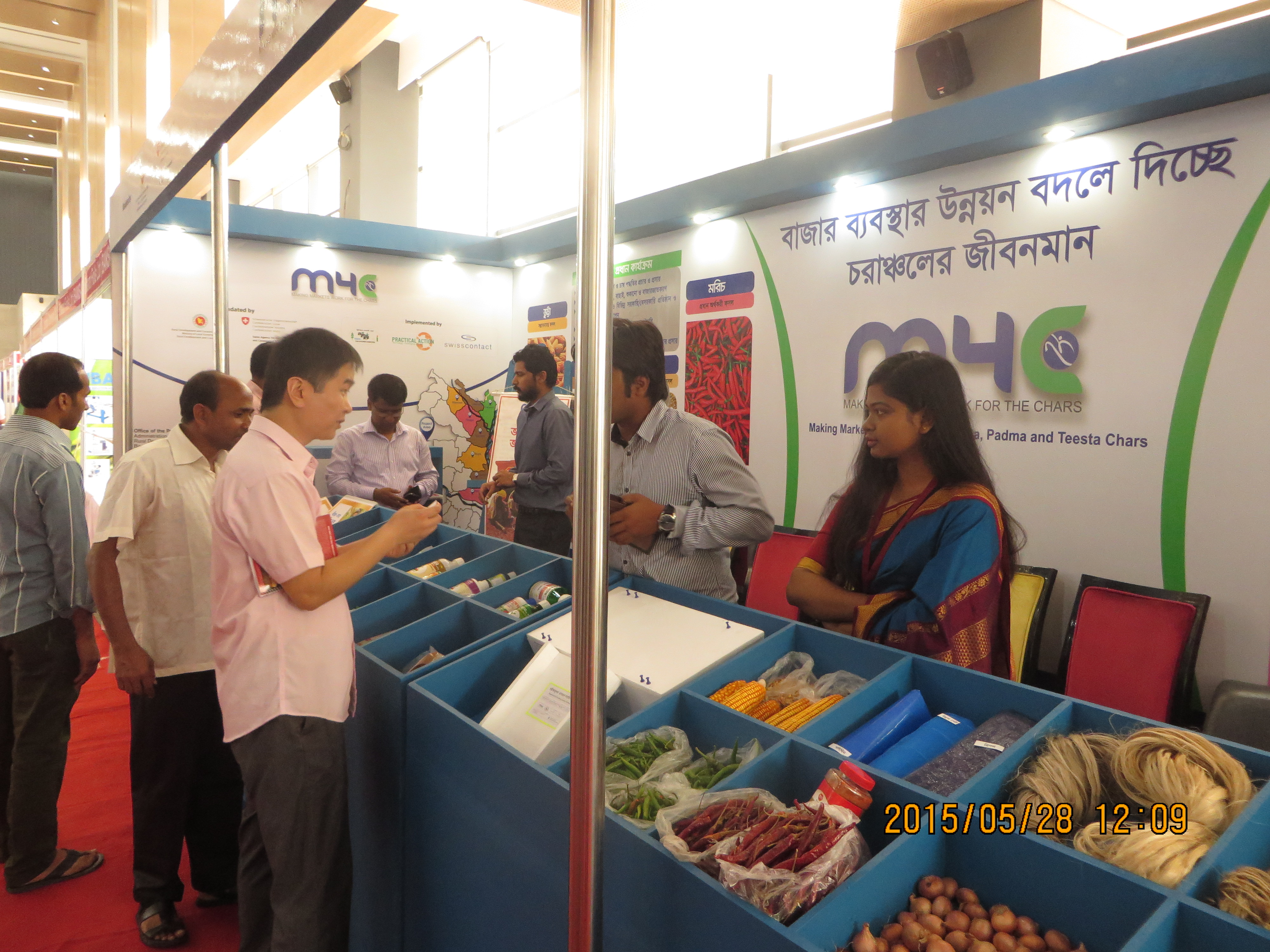 5th Agro Tech Bangladesh, 28-30 May, 2015 at Basundhara International Convention City, Dhaka